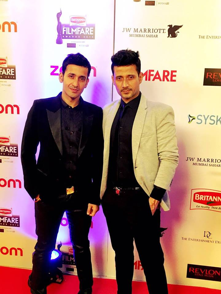 Meet Bros at the Film Fare awards 2016